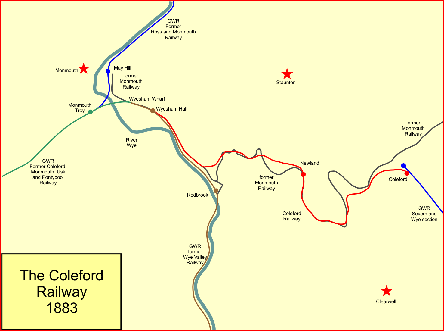 System map of the Coleford Railway, Gloucestershire, UK in 1883